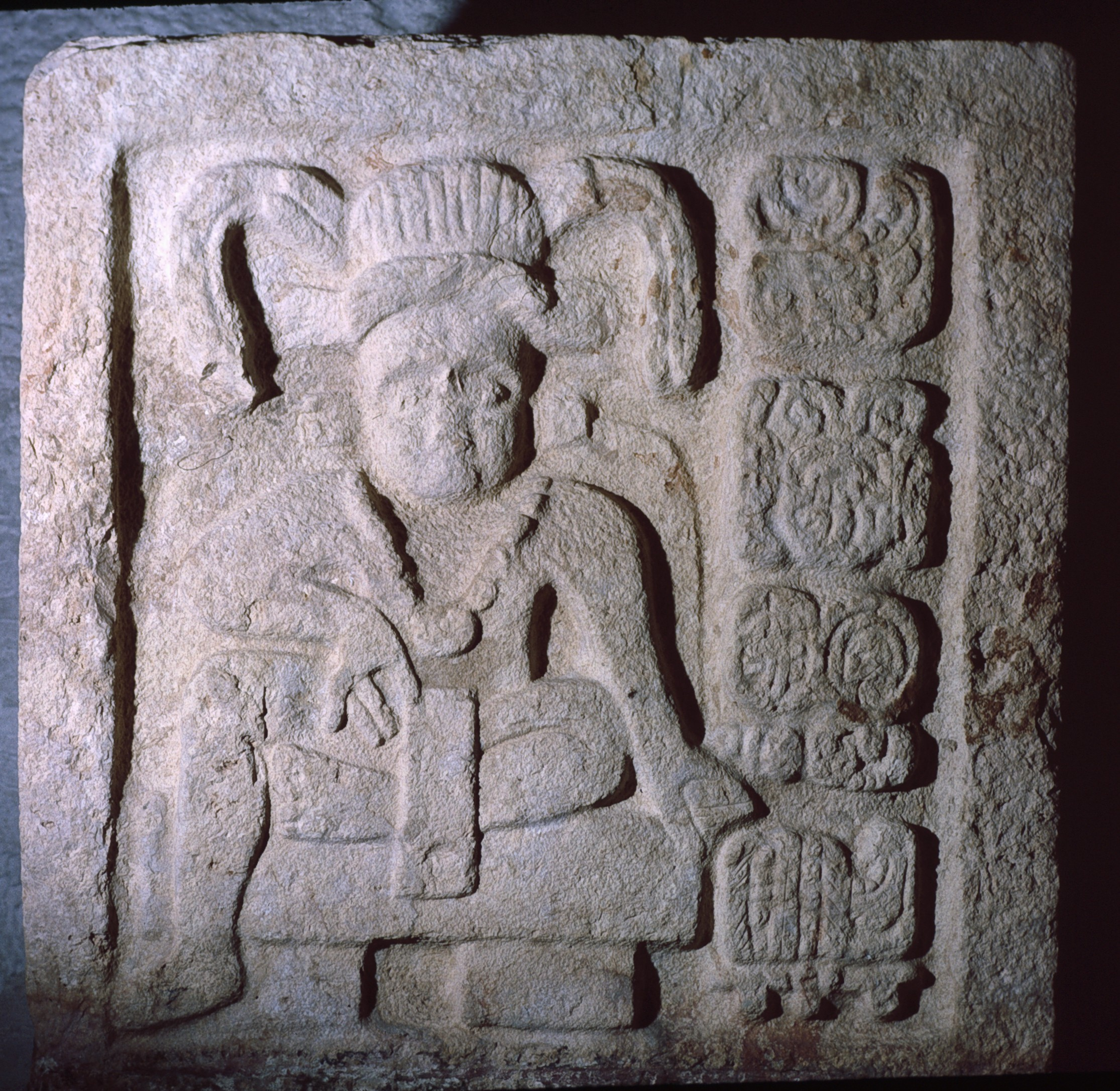 Xcalumkin, Campeche, Mexico: Hieroglyph Group, South building, east Panel